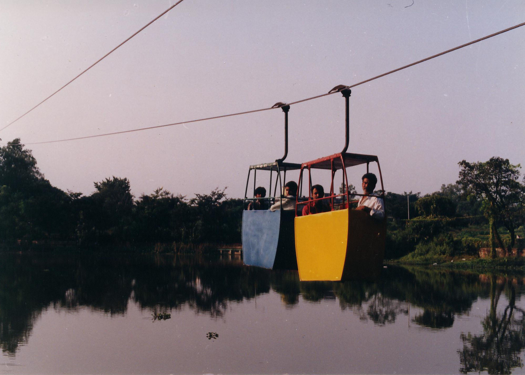 Pic courtesy DSP PR